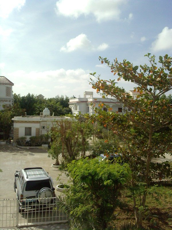 The International Village Hotel in Bosaso, Somalia.